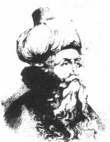 Image of unknown source or nature titled "Ibn Arabi"